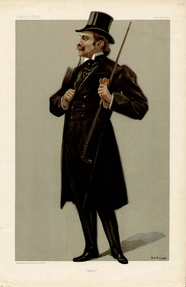 Caricature of Edmond Rostand. Caption read "Cyrano".